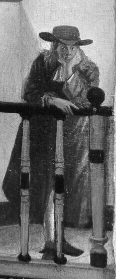 Detail from the painting "Dirck Dircksz Wilre in Elmina" (1669) by painter Pieter de Wit (1646-16XX). Person depicted is most probably Willem Godschalck van Focquenbroch (1640-1670). Complete painting here